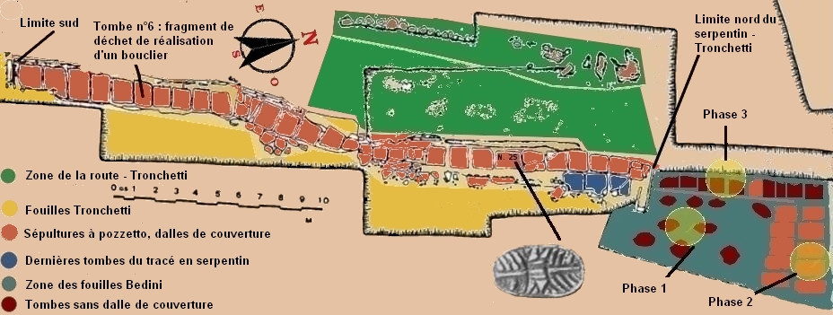 Map of Monte Prama tombs, with French legend